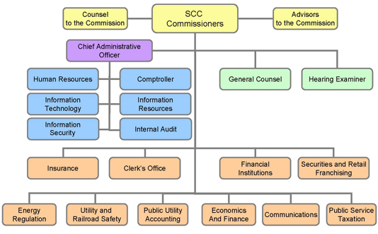 Virginia SCC Organizational Chart